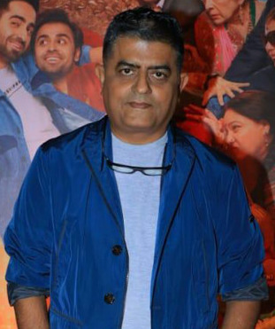 Gajraj Rao at the trailer success party of Shubh Mangal Zyada Saavdhan